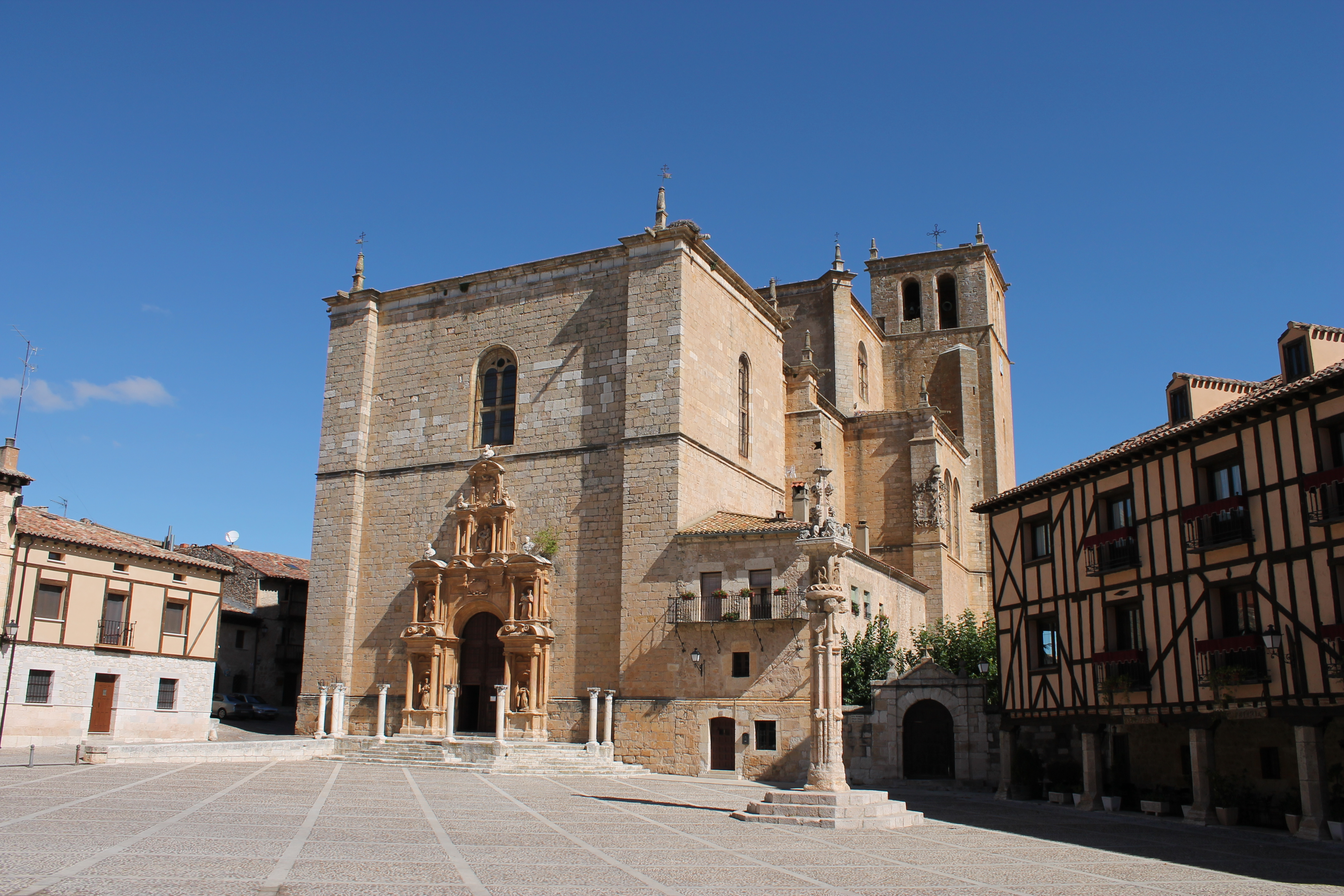 Peñaranda de Duero